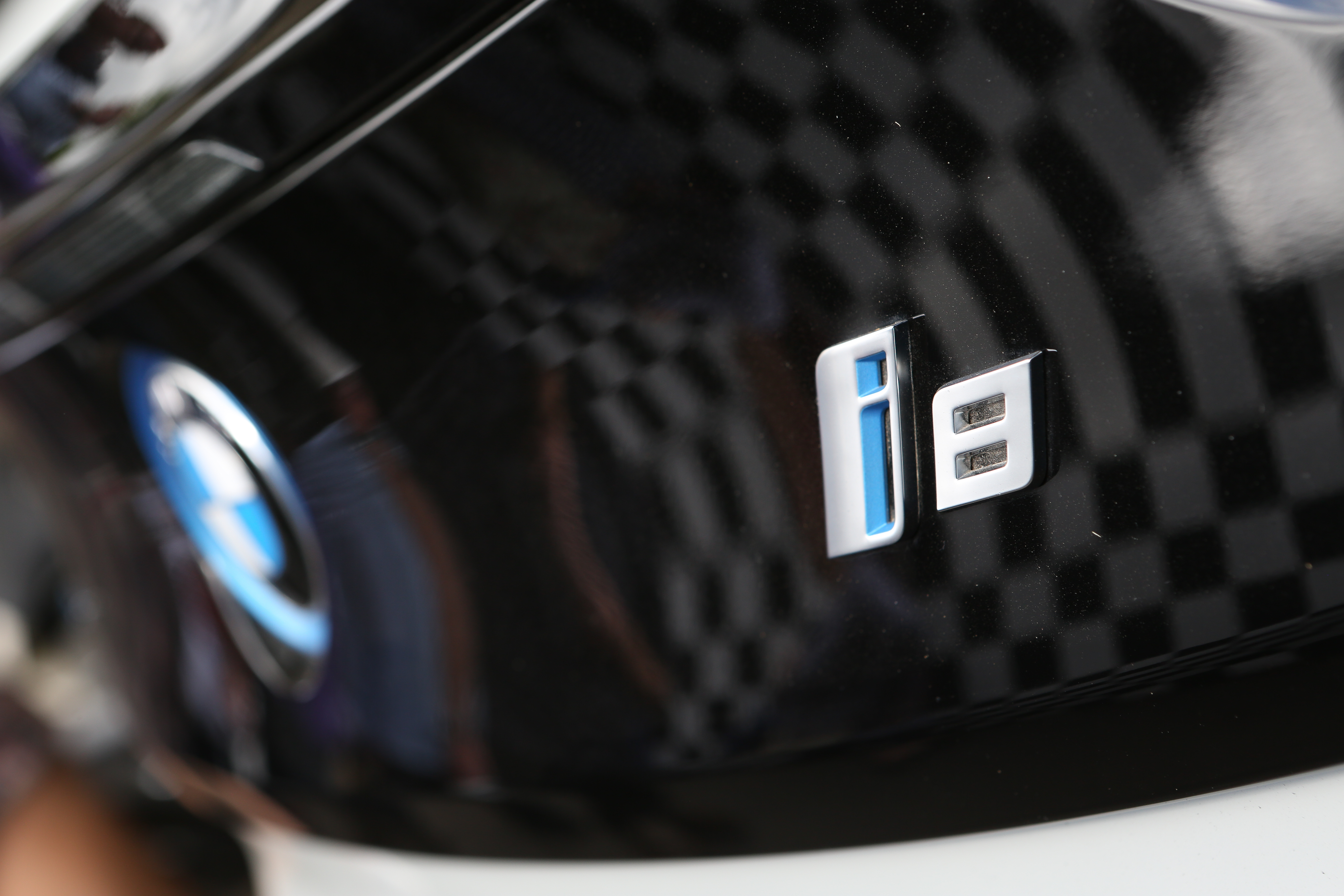 Close-up of the BMW i8 badge at 2014 Goodwood Festival of Speed, UK